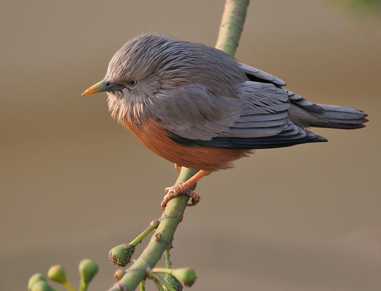 Chestnut-tailed Starling Sturnus malabaricus in Kolkata, West Bengal, India.